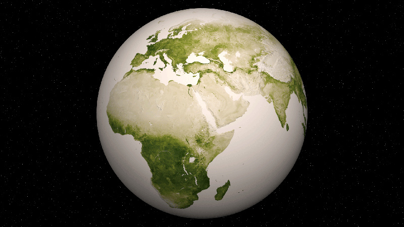 Subtle differences in shades of green in this animation reflect vegetation conditions worldwide. High values of Normalized Difference Vegetation Index, or NDVI, represent dense green functioning vegetation, and low NDVI values represent sparse green vegetation or vegetation under stress from limiting conditions, such as drought. The still image is a snapshot of the Earth created from a year’s worth of data from April 2012 to April 2013. The information was sent back to Earth from the Visible-Infrared Imager/Radiometer Suite (VIIRS) instrument aboard the Suomi National Polar-orbiting Partnership or Suomi NPP satellite, a partnership between NASA and the National Oceanic and Atmospheric Administration, or NOAA. Credit: NASA/NOAA To read more go to: NASA image use policy. NASA Goddard Space Flight Center enables NASA’s mission through four scientific endeavors: Earth Science, Heliophysics, Solar System Exploration, and Astrophysics. Goddard plays a leading role in NASA’s accomplishments by contributing compelling scientific knowledge to advance the Agency’s mission. Follow us on Twitter Like us on Facebook Find us on Instagram